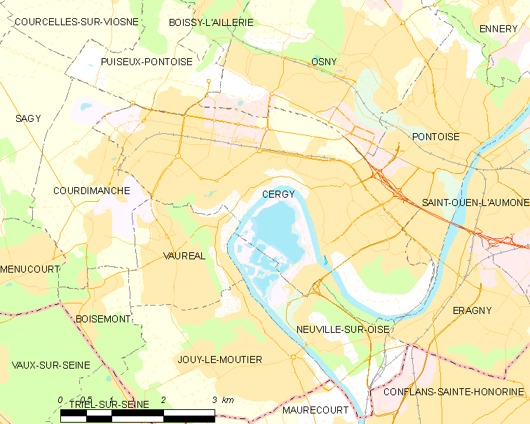 Map of French municipality Cergy